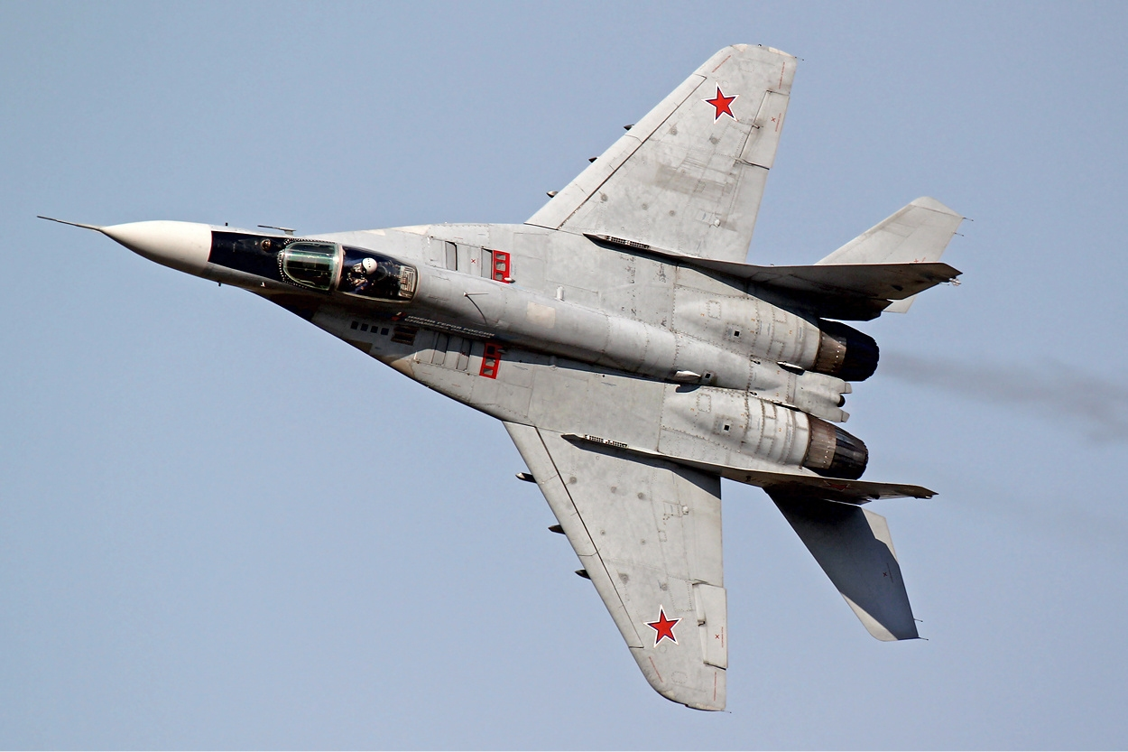 Russian Air Force Mikoyan-Gurevich MiG-29S (9-13S)